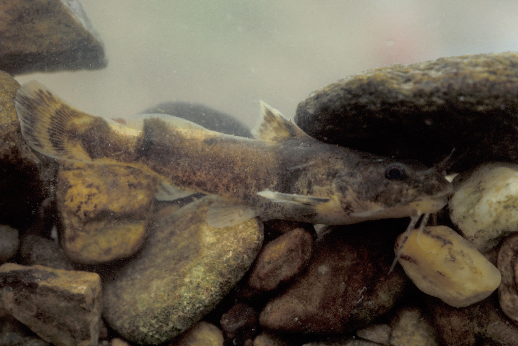 Noturus munitus USFWS